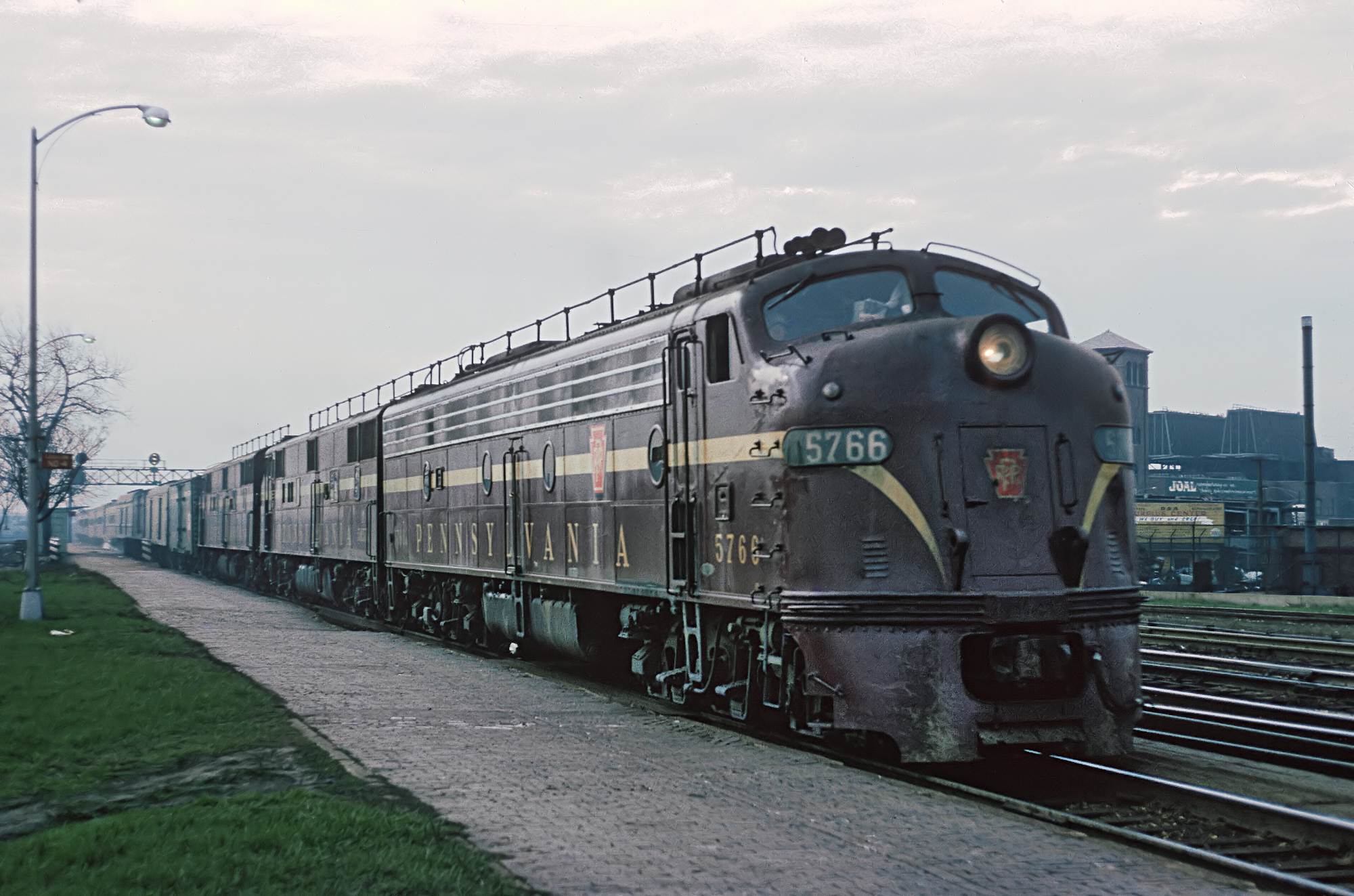 A Roger Puta Photograph